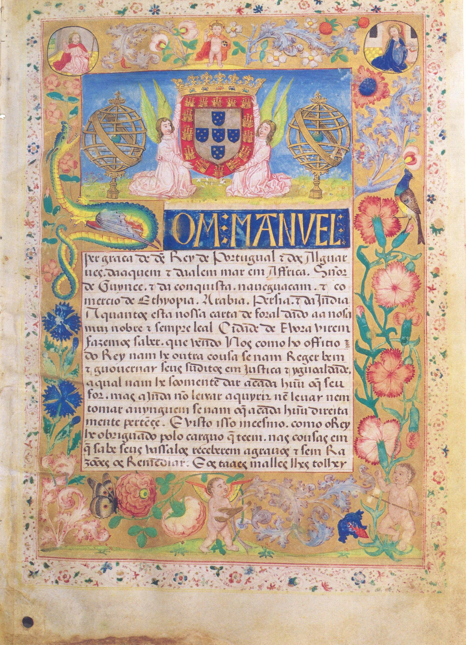 Foral (chart of feudal rights) of the city of Évora granted in the year 1501.